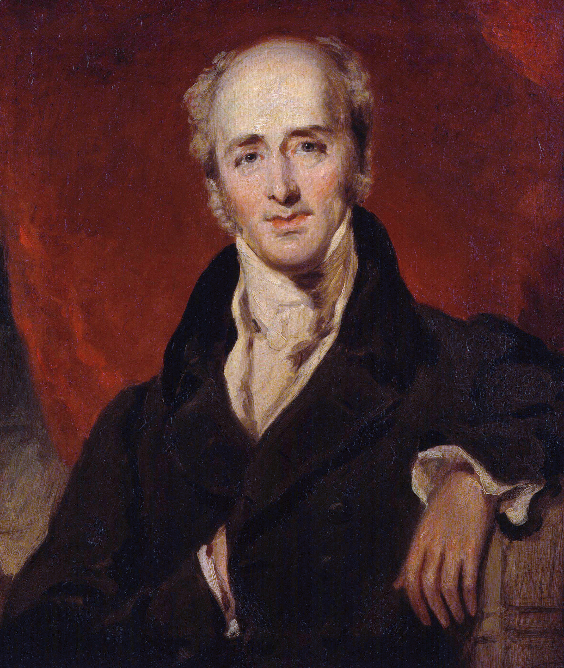 All images in this batch have been confirmed as author died before 1939 according to the official death date listed by the NPG.